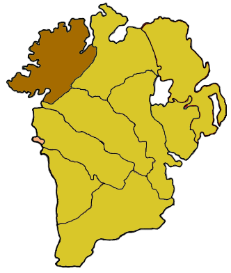 Catholic Diocese of Raphoe.